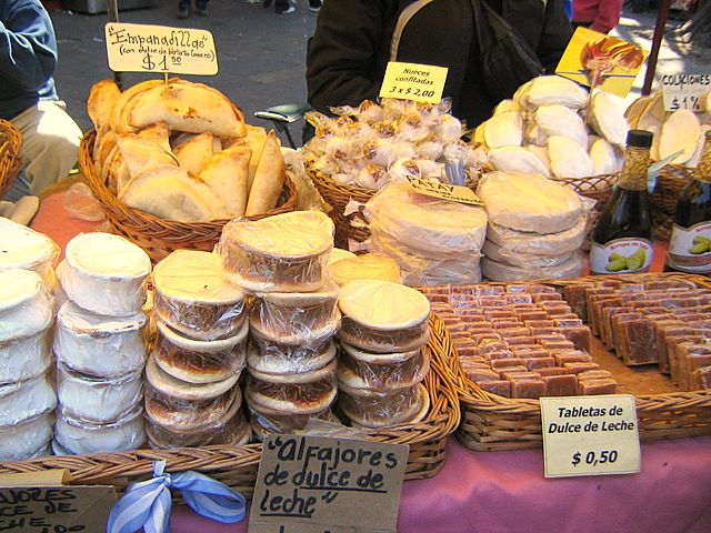 The fair of Mataderos,uenos Aires, Argentina. Tabletas and alfajores with Dulce de leche filling.